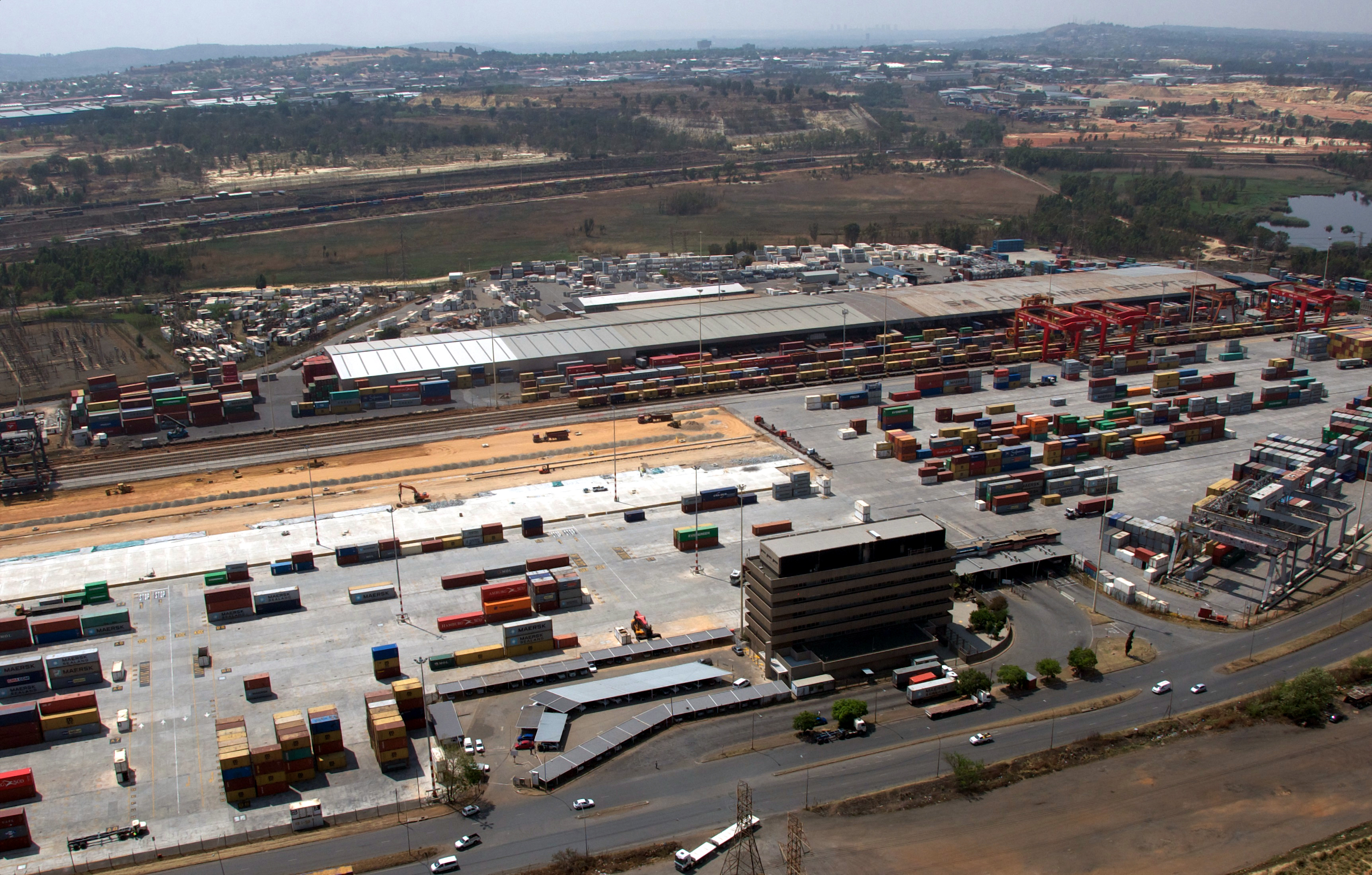 City Deep container terminal Johannesburg 2014